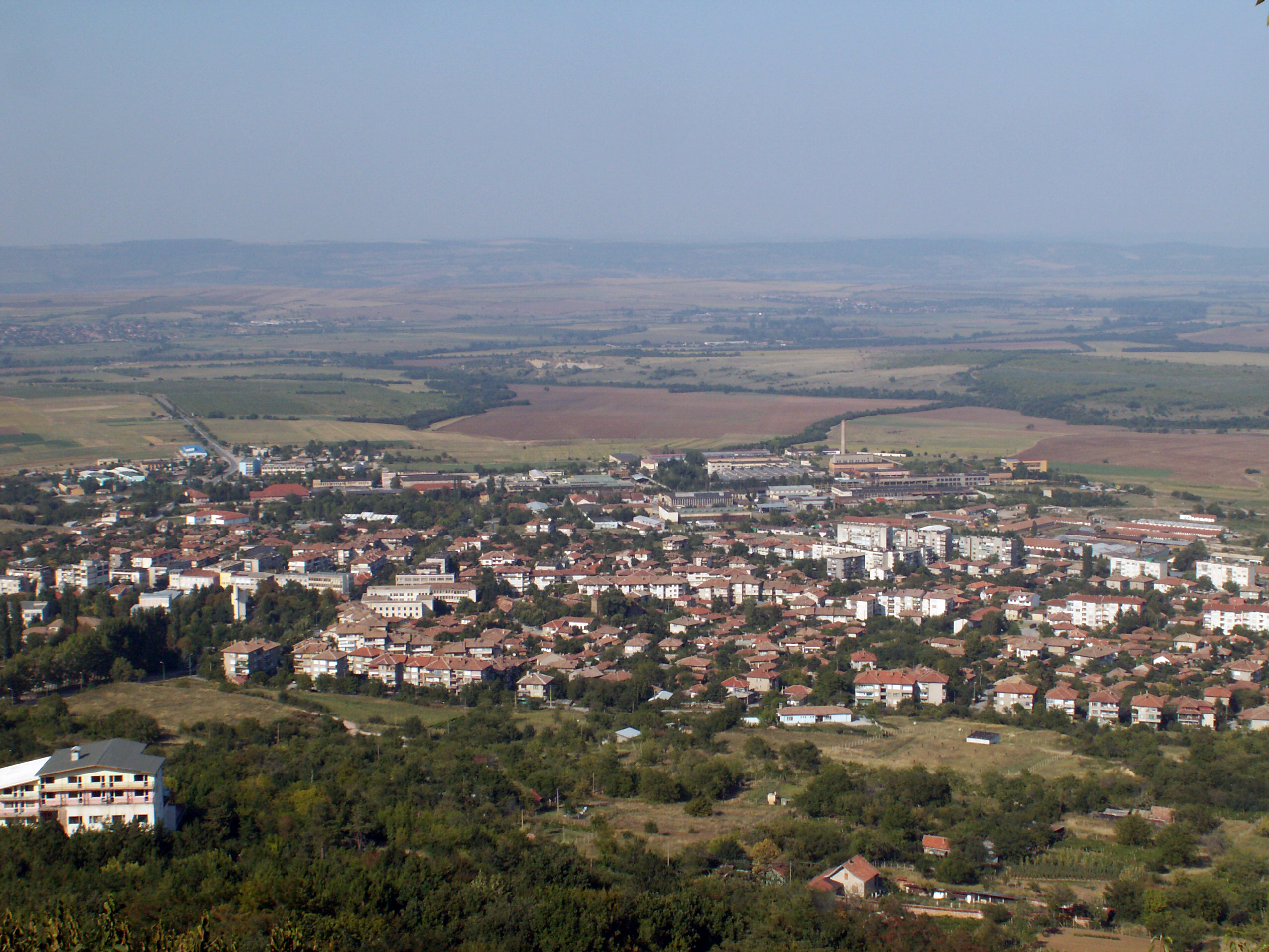 View on Lyaskovets from Saints Peter and Paul Monastery